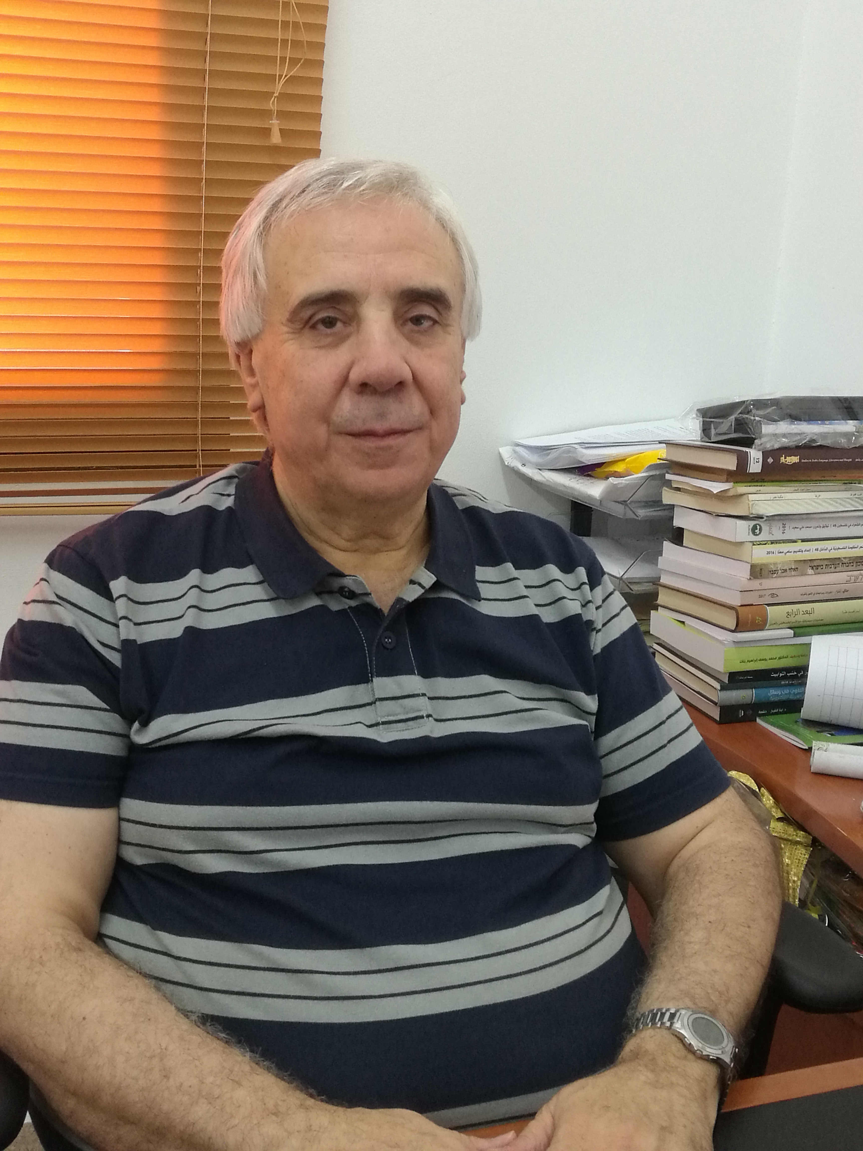 Prof. Yaseen Kittani